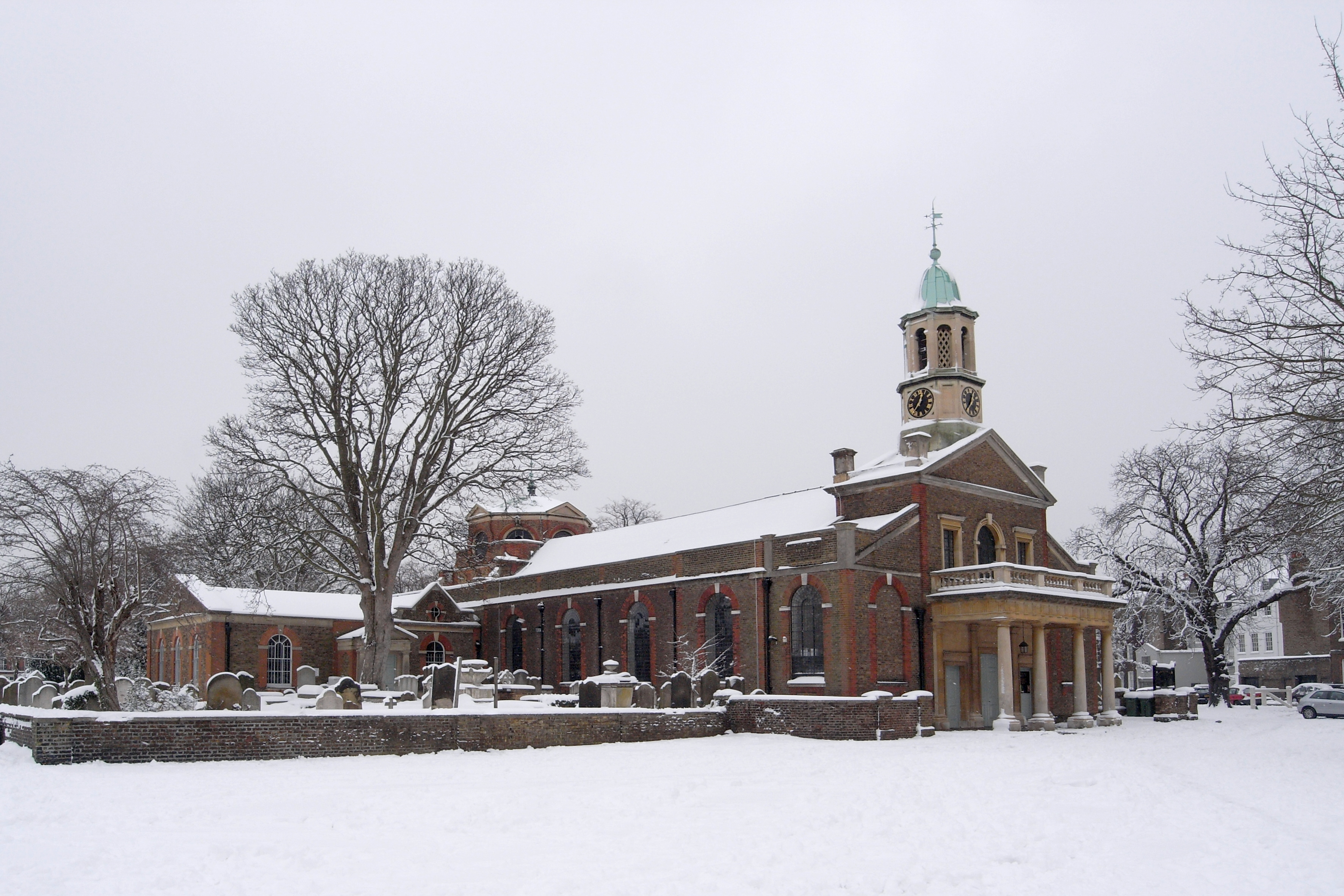 The Parish Church of St. Anne, Kew Green, London. (Built by Queen Anne in 1714 - so says a notice on it.) The forecourt of the church was mercifully free of parked cars, due to the snow, allowing the church to be fully seen.